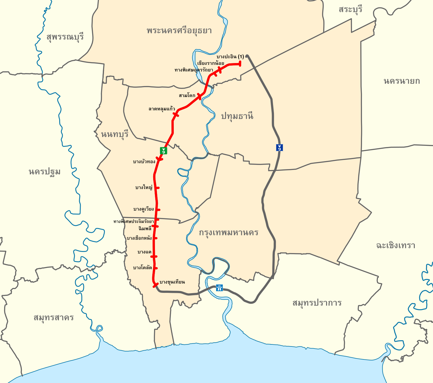 Bangkok Western Outer Ring Road, with the names of interchanges.